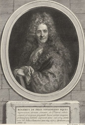 Engraving of Bernard Picart (1673–1733), French engraver, son of Étienne Picart, also an engraver, born in Paris and dead in Amsterdam